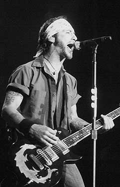 Sully Erna frontman of Godsmack performs the song The Enemy at IV TOUR in 2006. Photo by Arashinc